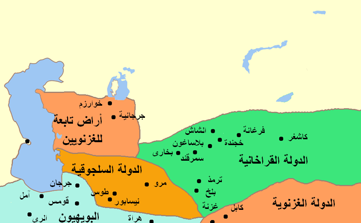 Approximate map for the boundaries of Central Asia`s countries and cities at the year 432 AH, when the Abbasid Caliphate first officially accepted the Seljuk empire. Note: the locations of cities on the map may be not very accurate due to the slight difference between the Historical maps and that no accurate scale was used to spot their sites.